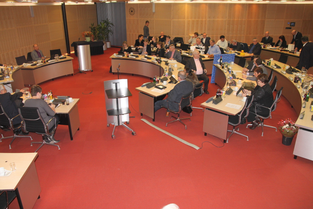 Municipality Council in Spijkenisse